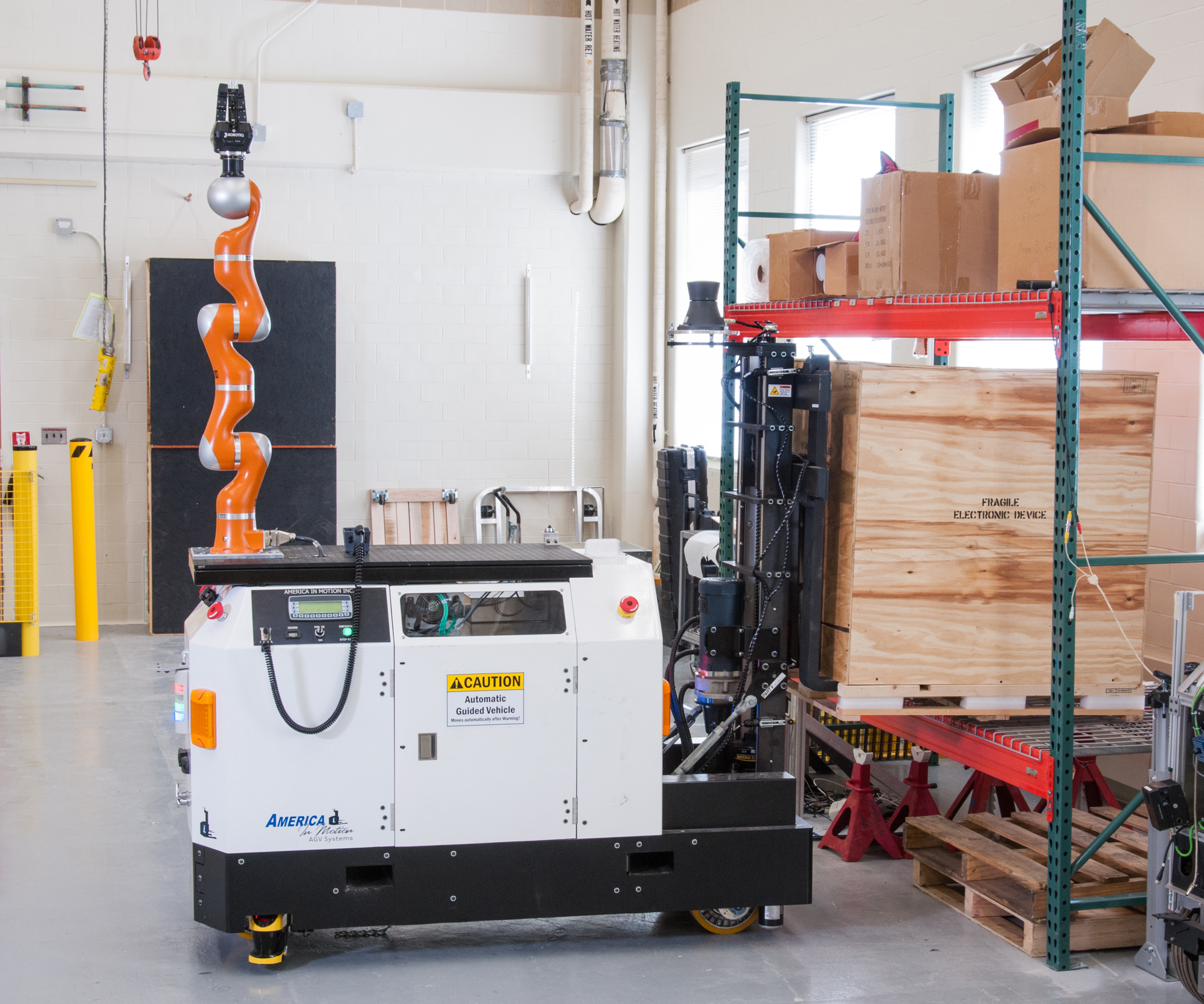 Operating autonomously, the NIST AGV is removes a crate from an industrial rack. AGV is used in the development of safety and performance metrics and test methods for the manufacturing applications. Credit: Bostelman/NIST Disclaimer: Any mention of commercial products within NIST web pages is for information only; it does not imply recommendation or endorsement by NIST. Use of NIST Information: These World Wide Web pages are provided as a public service by the National Institute of Standards and Technology (NIST). With the exception of material marked as copyrighted, information presented on these pages is considered public information and may be distributed or copied. Use of appropriate byline/photo/image credits is requested.